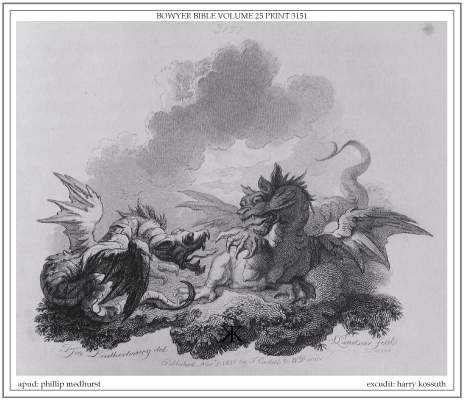 One of 6,330 prints in the 45 volumes of the Bowyer Bible in Bolton Museum, England. The six volumes of the Macklin Bible have been expanded by careful grangerisation.